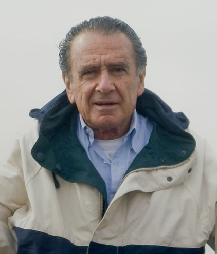 cassual picture of ernesto eurnekian